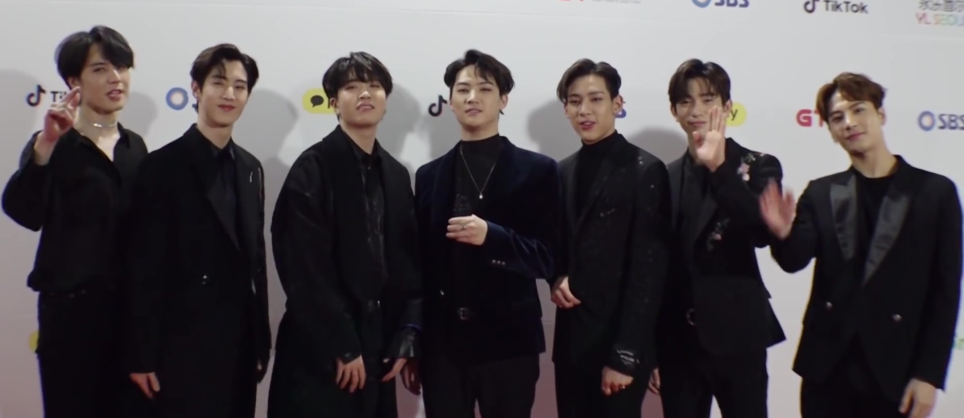 Got7 2019 New Year's greetings